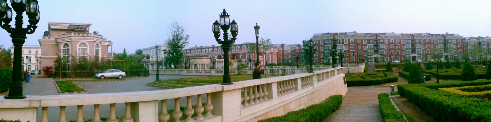 Apartments of Beijing suburb (Original picture enhanced)